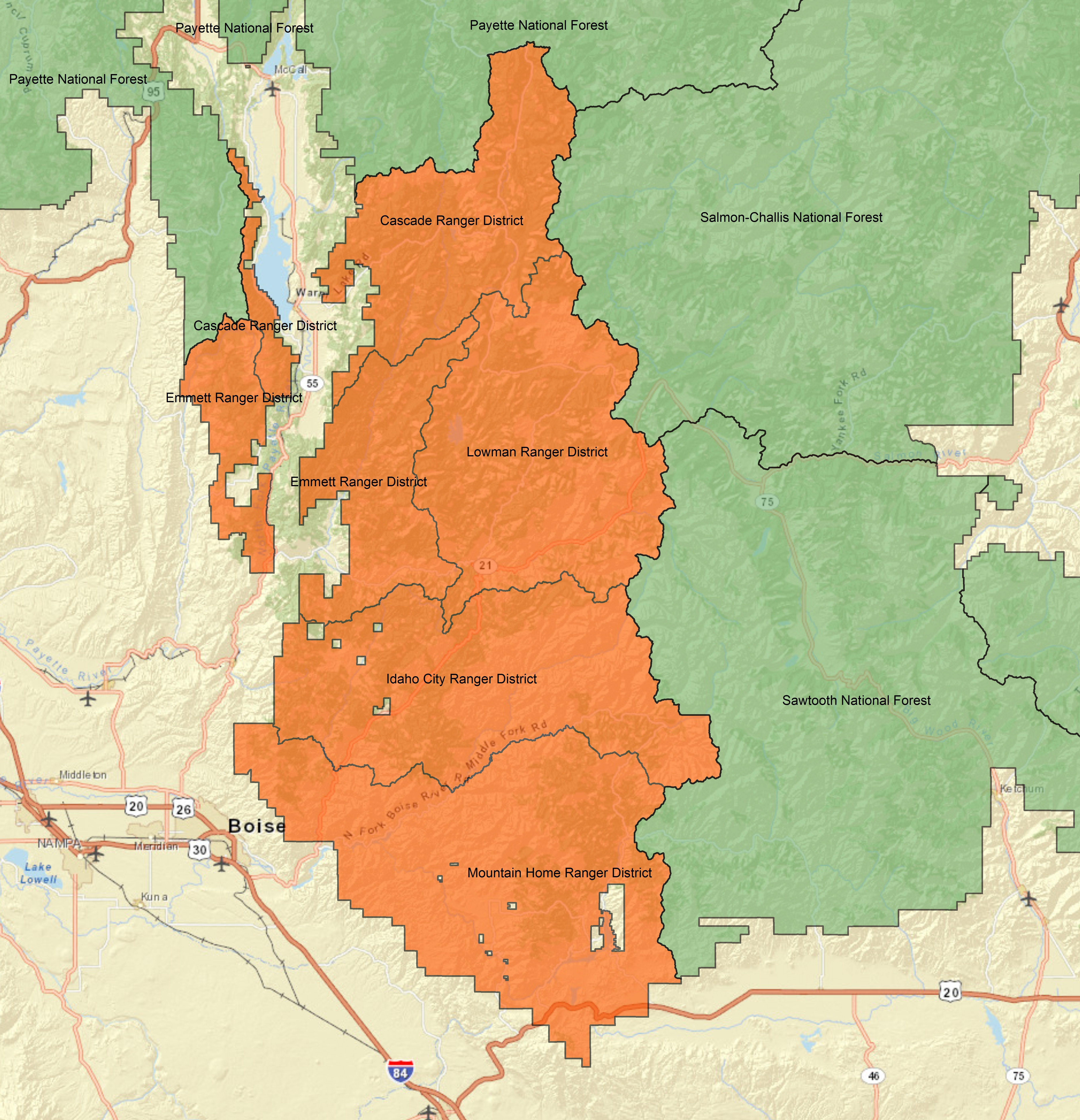 A map of Boise National Forest in Idaho. The Cascade, Emmett, Idaho City, Lowman and Mountain Home Ranger Districts of Boise National Forest are in orange. Surrounding National Forests, including Payette, Salmon-Challis, and Sawtooth are in green. This map was made using ARCGIS 10, and all data are in the public domain. Forest Service boundary data are from the US Forest Service FSGeodata Clearinghouse.